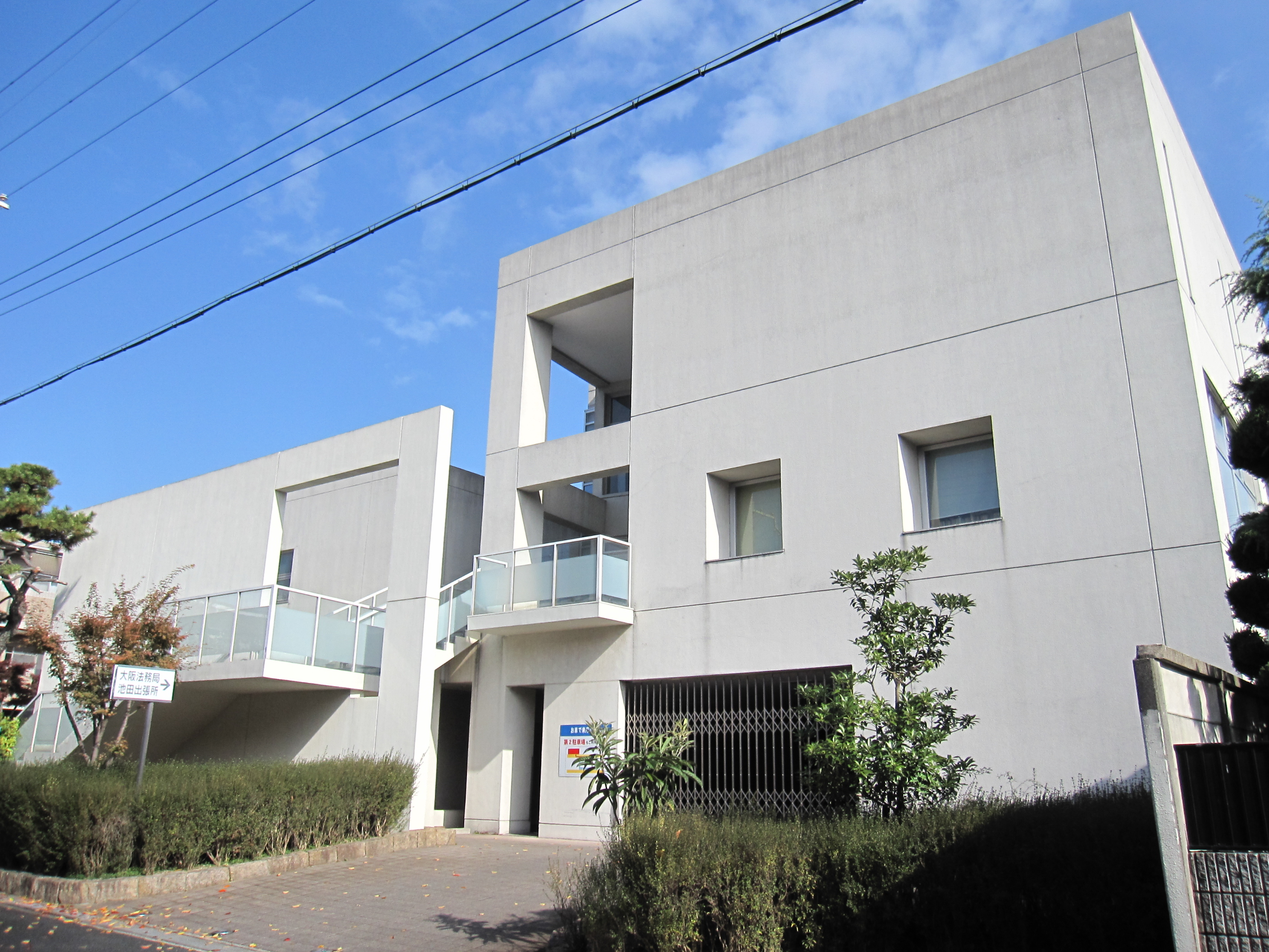 OSAKA Legal Affairs Bureau IKEDA Sub‐branch.